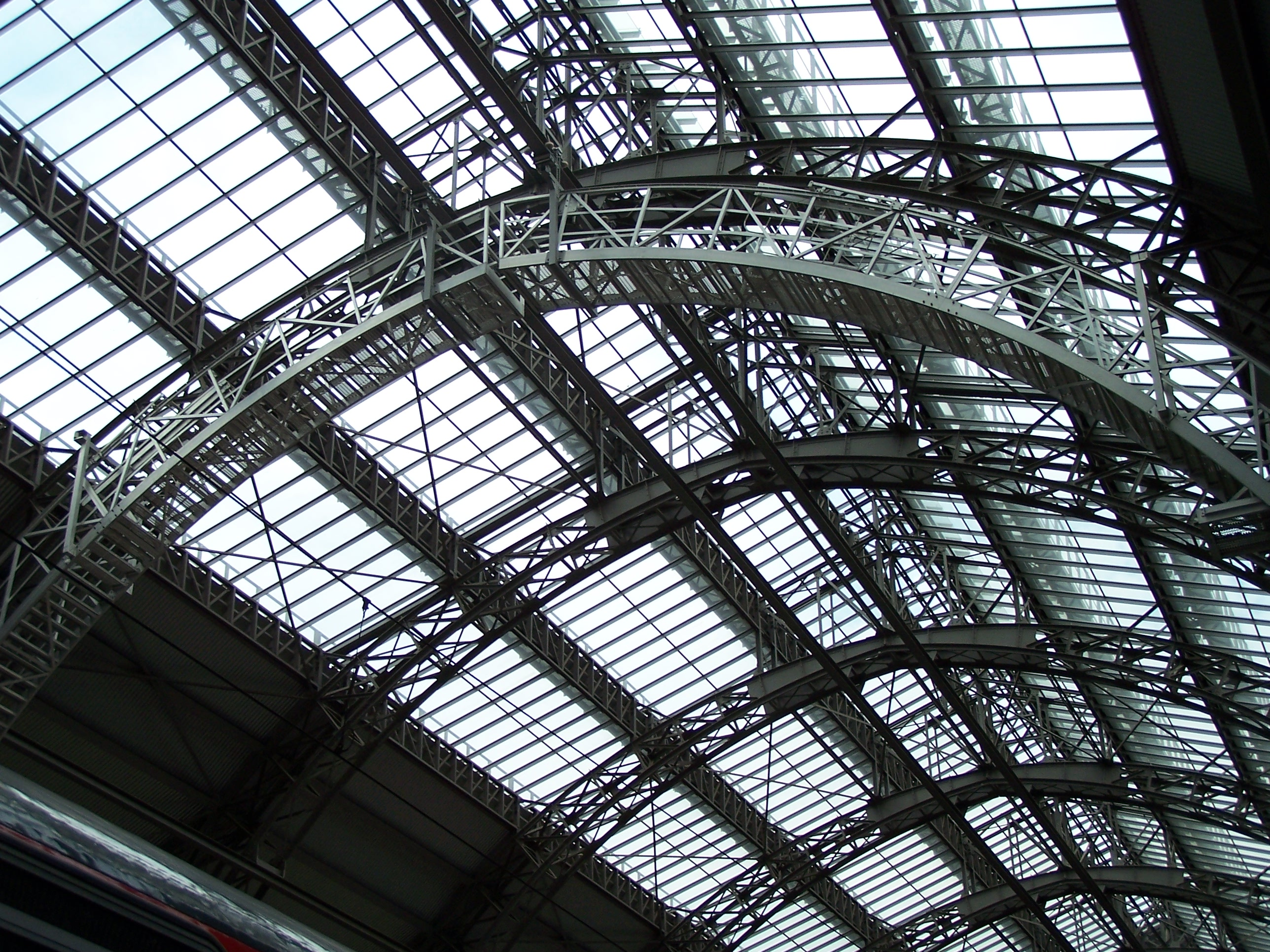 steel construction of the roof in the southern hall of Frankfurt (Main) – central station